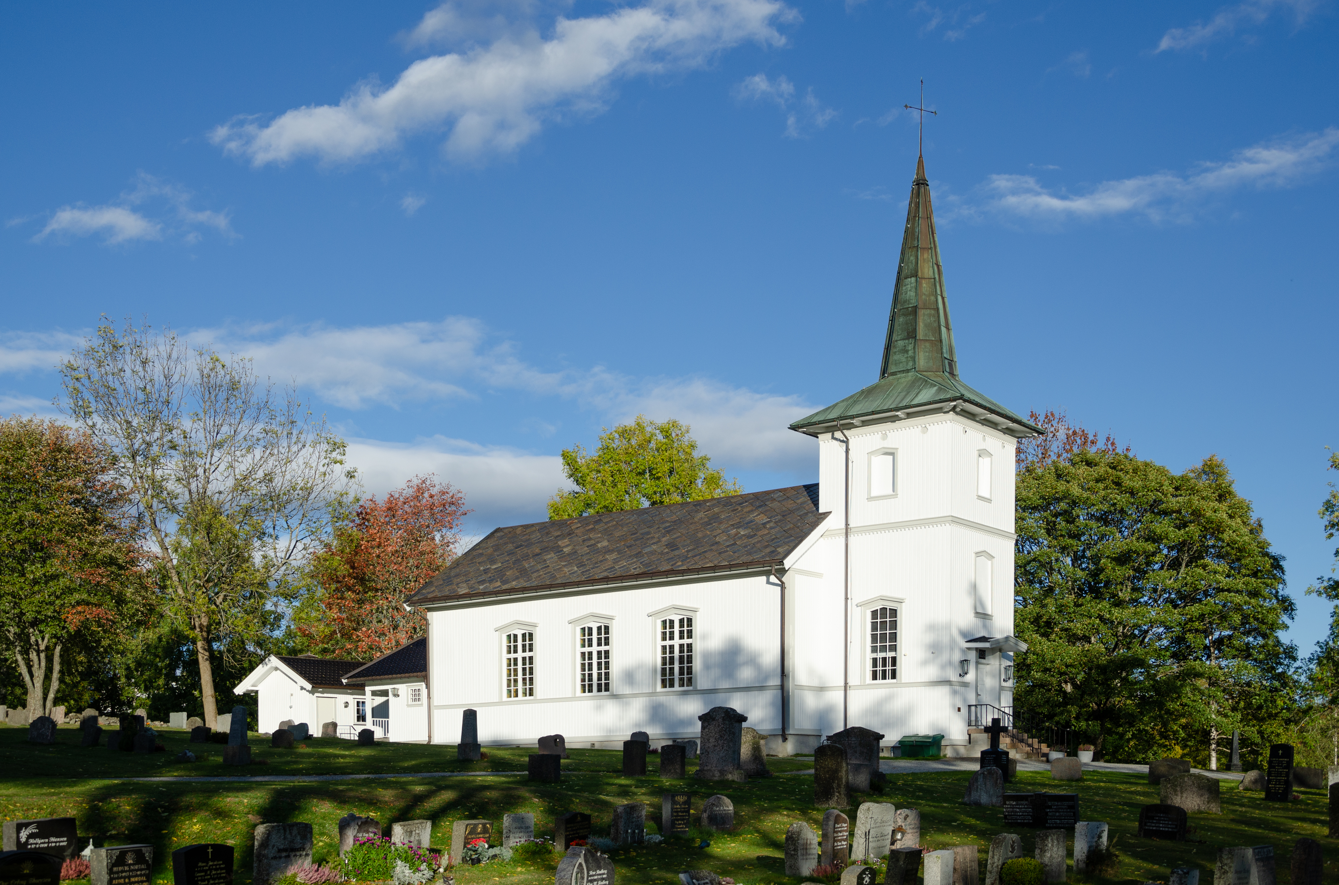 Konnerud old church, built in 1858.